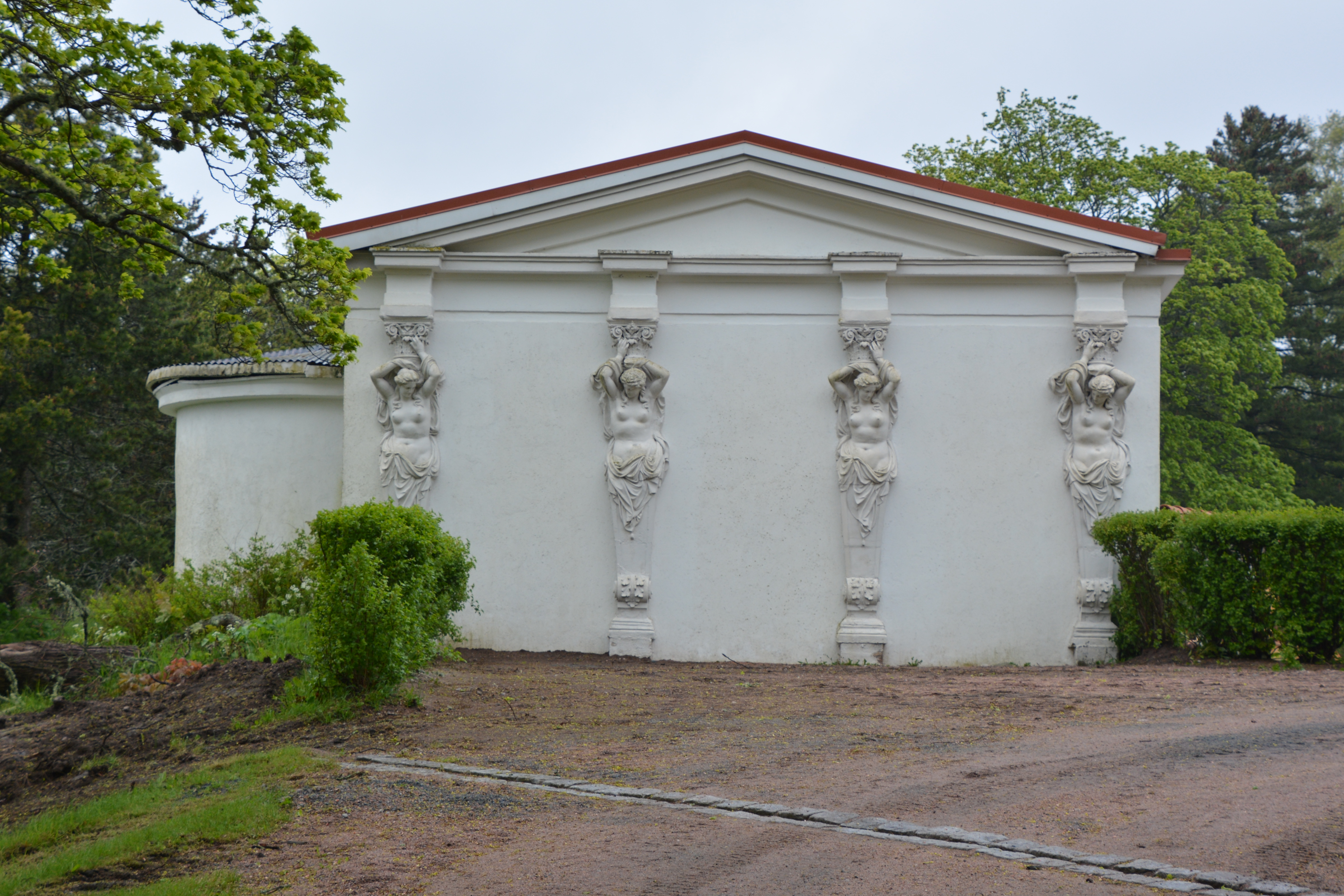 Karyatides on the garage of Söderlångvik